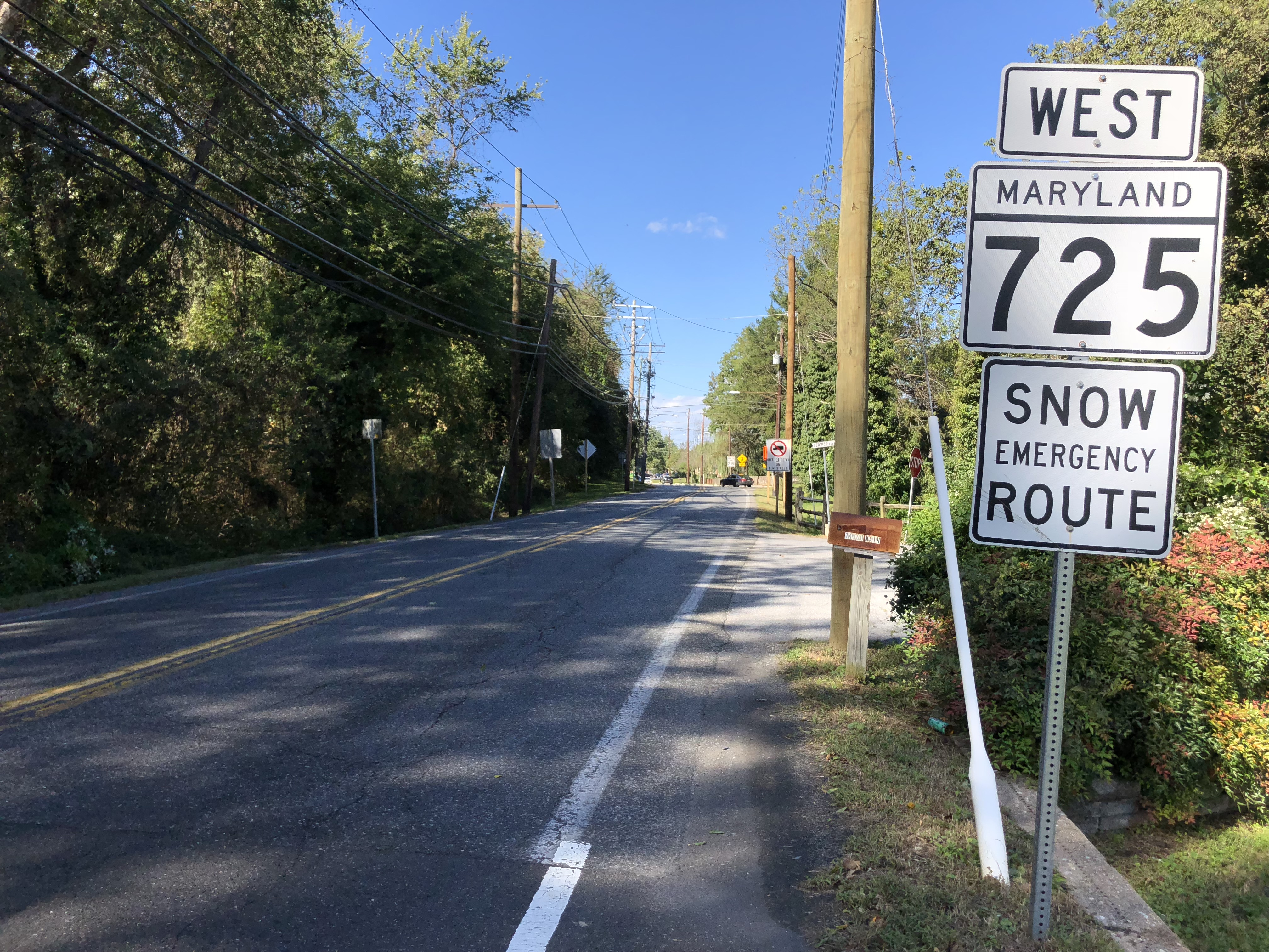 View east along Maryland State Route 725 (Old Marlboro Pike) at Main Street in Upper Marlboro, Prince George's County, Maryland